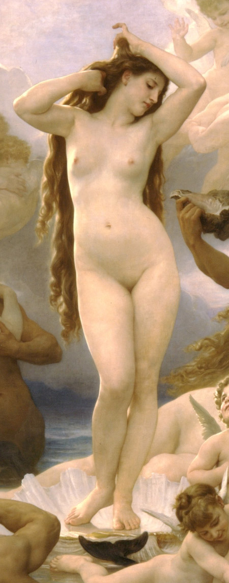 Detail from The Birth of Venus